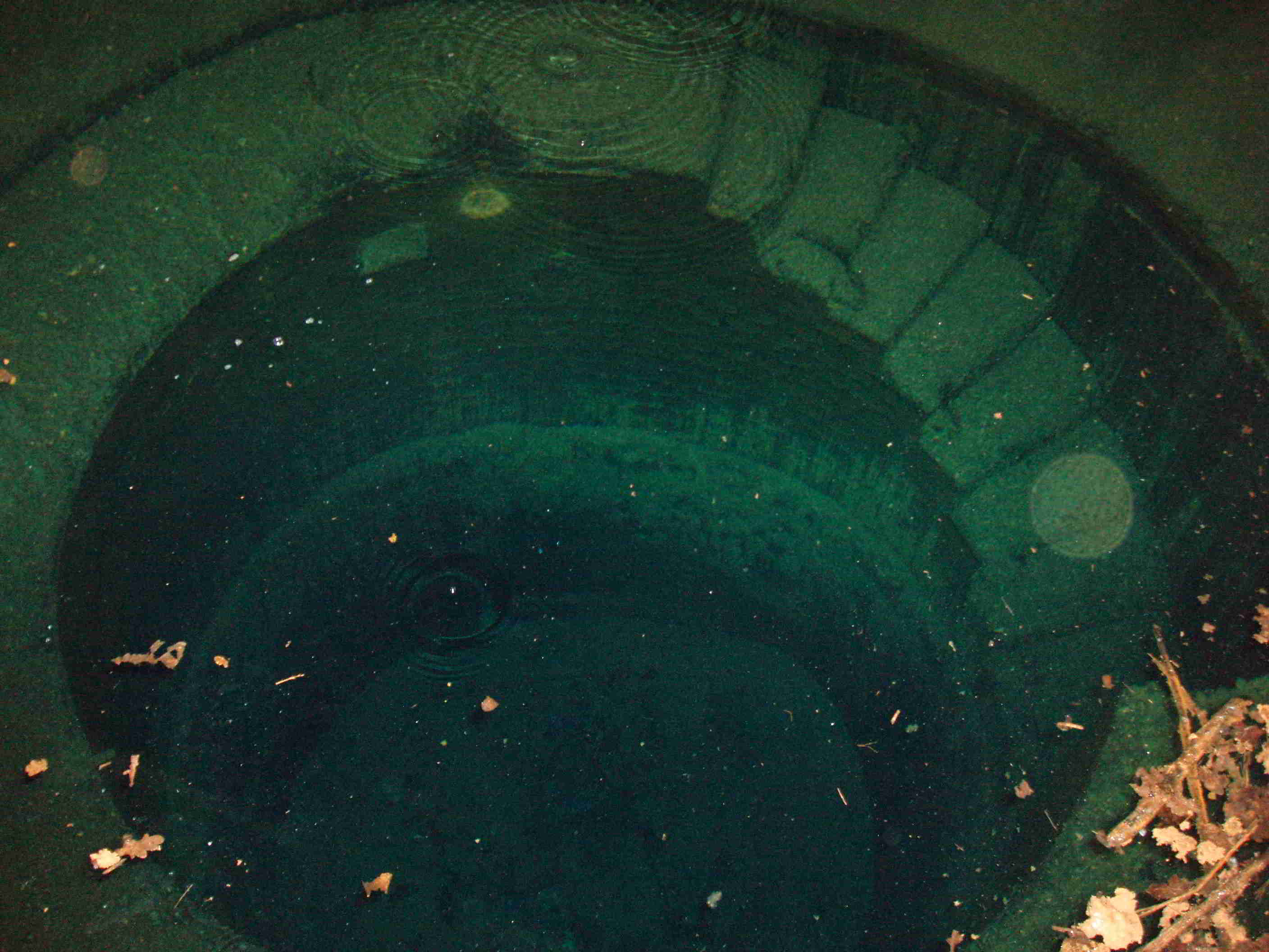 Taffs Well Thermal spring view into well note air bubbles rising that are composed of nitrogen gas